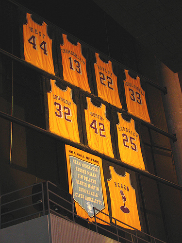 Retired Lakers jerseys at the Staples Center